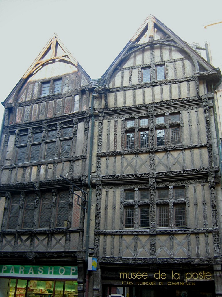 Medieval houses (15th-16th centuries) in Caen.